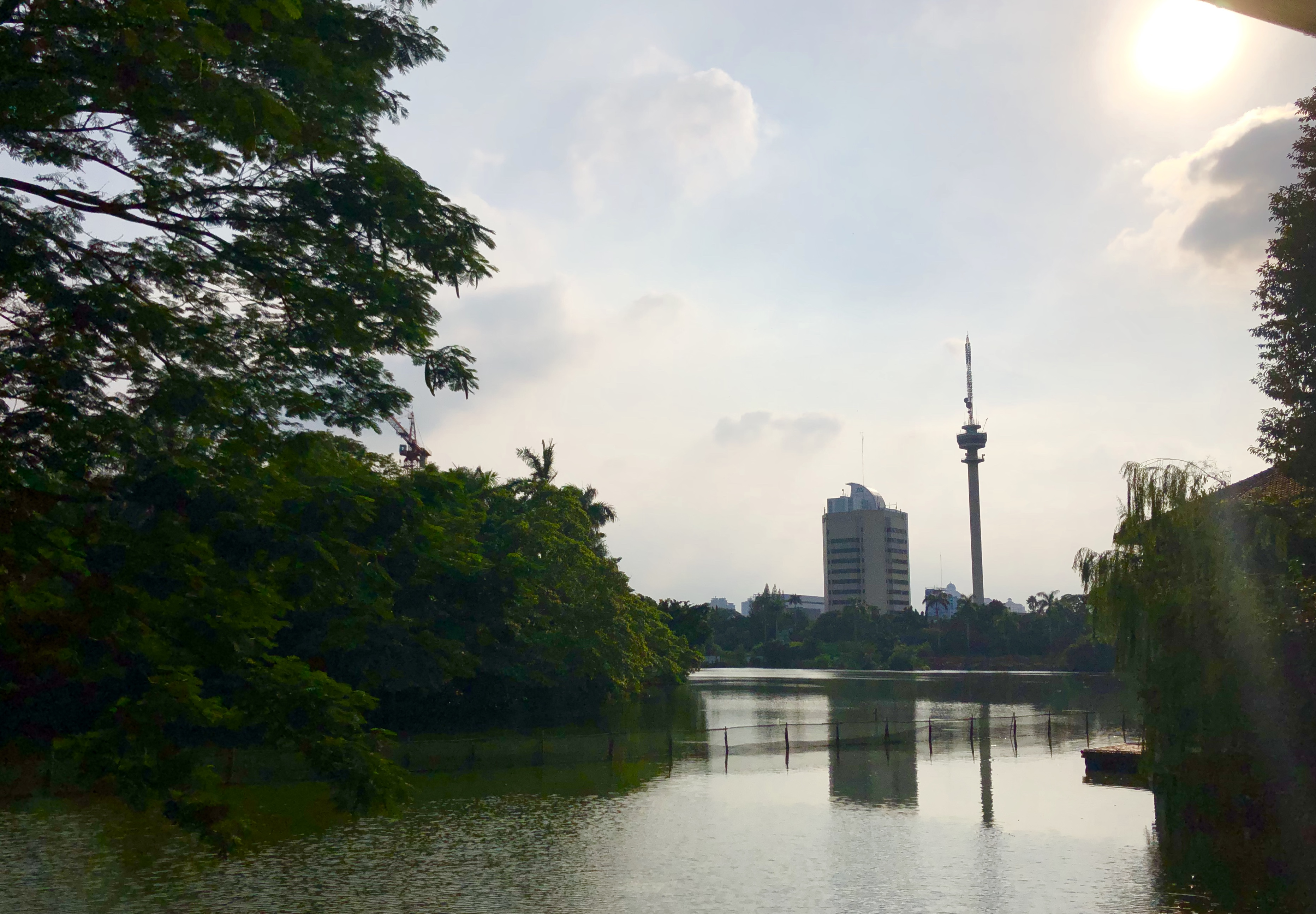 View of Jakarta's then-iconic TVRI Tower and Building from a vantage point over at the lake bridge in Taman Ria